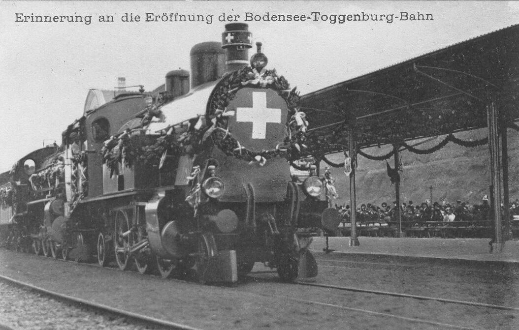 First train in Herisau to Uznach of the Bodensee-Toggenburg-Bahn (BT) and SBB, leading an Eb 3/5 of BT, followed by an SBB A 3/5 603–616